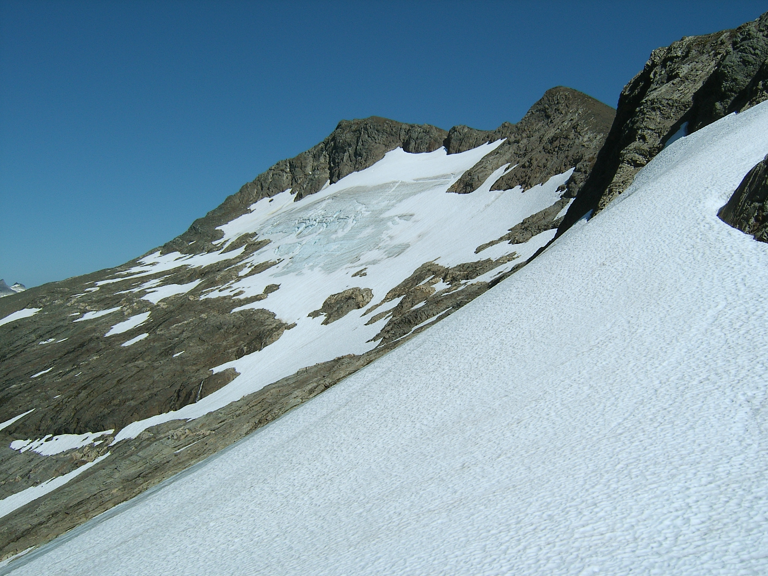 A picture of the western face of Mount Bassie, Alaska.